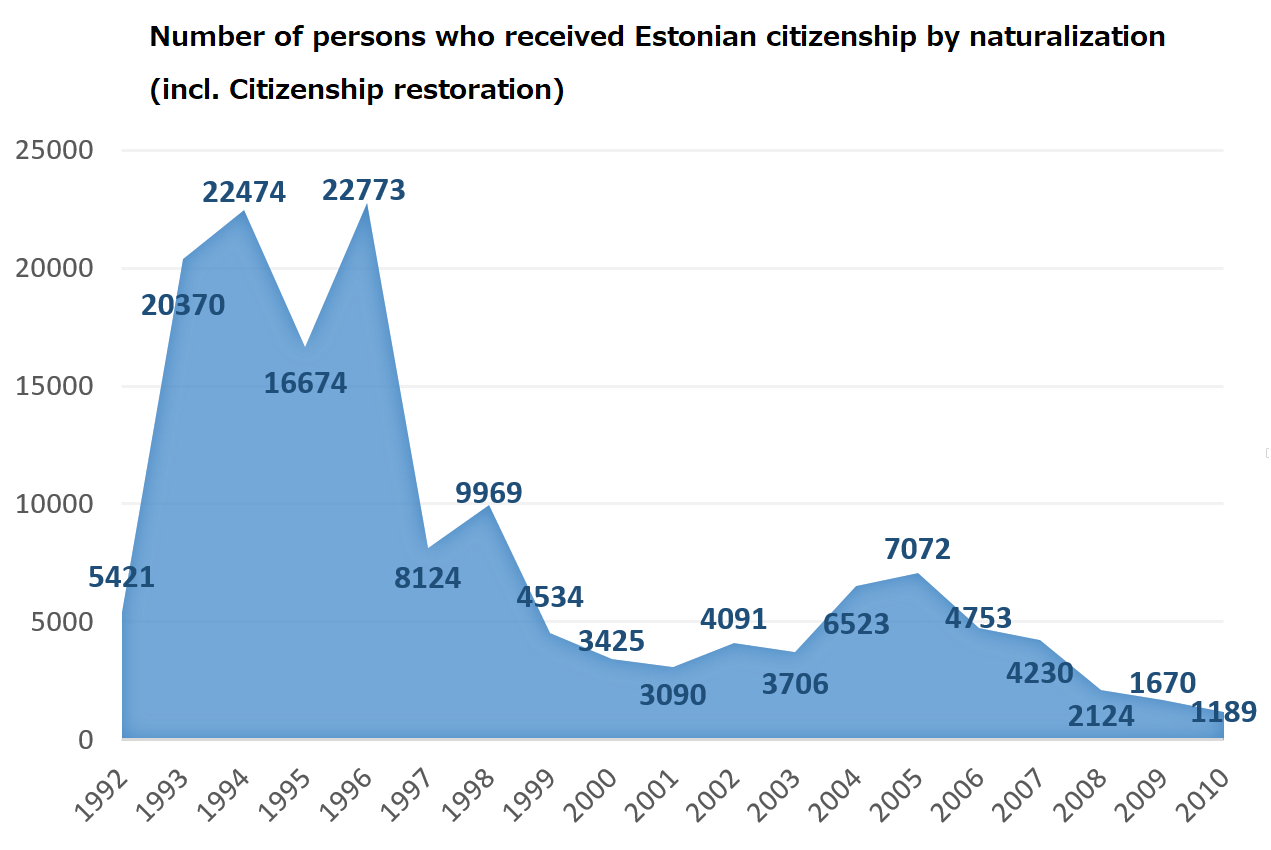 Number of persons who received Estonian citizenship by naturalization (incl. Citizenship restoration), 1992-2010